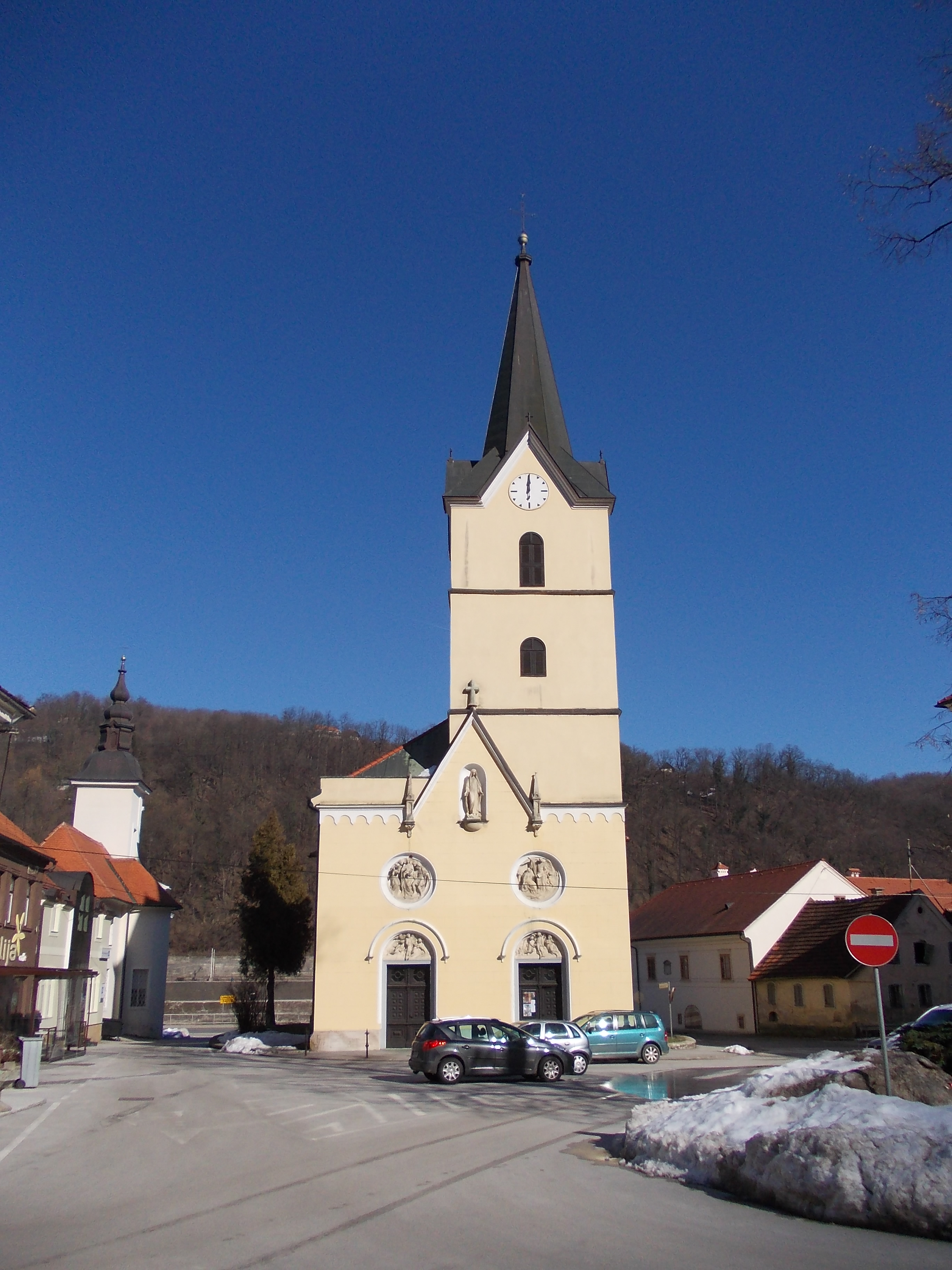 Saint John the Evangelist Church, Krško; Holy Spirit Church in the left and Krško City museum in the right.